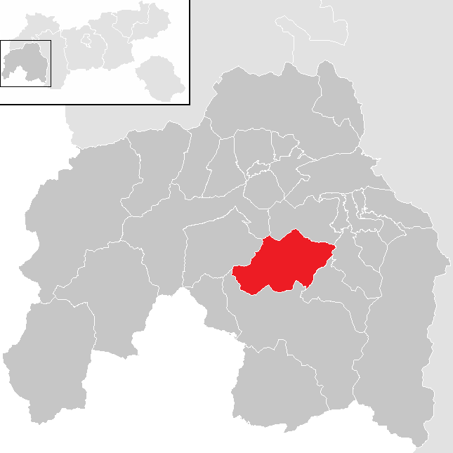 District Landeck